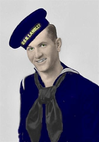 Doyle Clayton Barnes, U.S. Navy aviator. Namesake of USS Doyle C. Barnes.